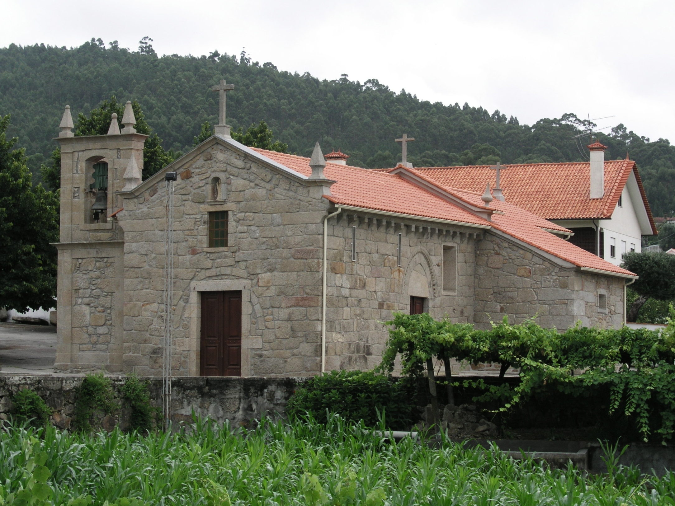 Romanic church of Friastelas, Ponte de Lima, Portugal